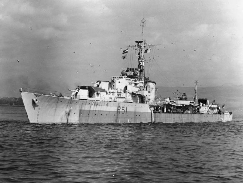 Photograph of British C class destroyer HMS Chevron, on the River Clyde on completion.